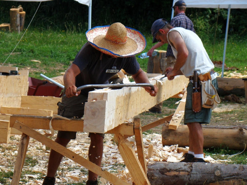 Construction of the synagogue roof replica at Sanok Skansen